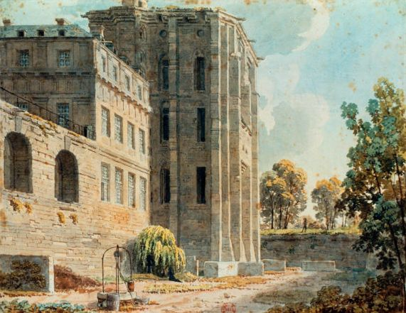 Chateau of Vincennes, in an anonymous watercolor, ca. 1820, drawn from the dry moat, showing the site of the duc d'Enghien's execution marked by a young weeping willow (Bibliotheque Nationale, Paris)